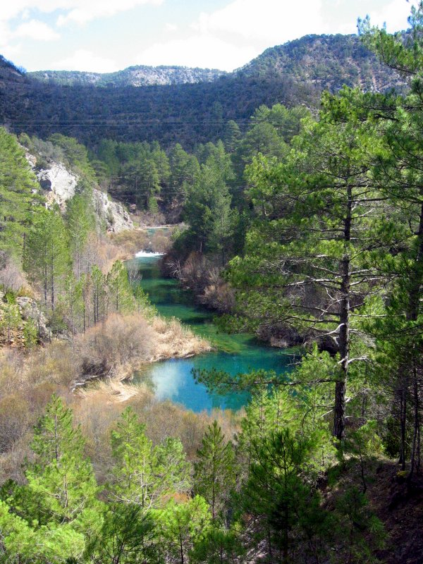 Upper Tagus Natural Park in Poveda de la Sierra, Guadalajara, Spain.